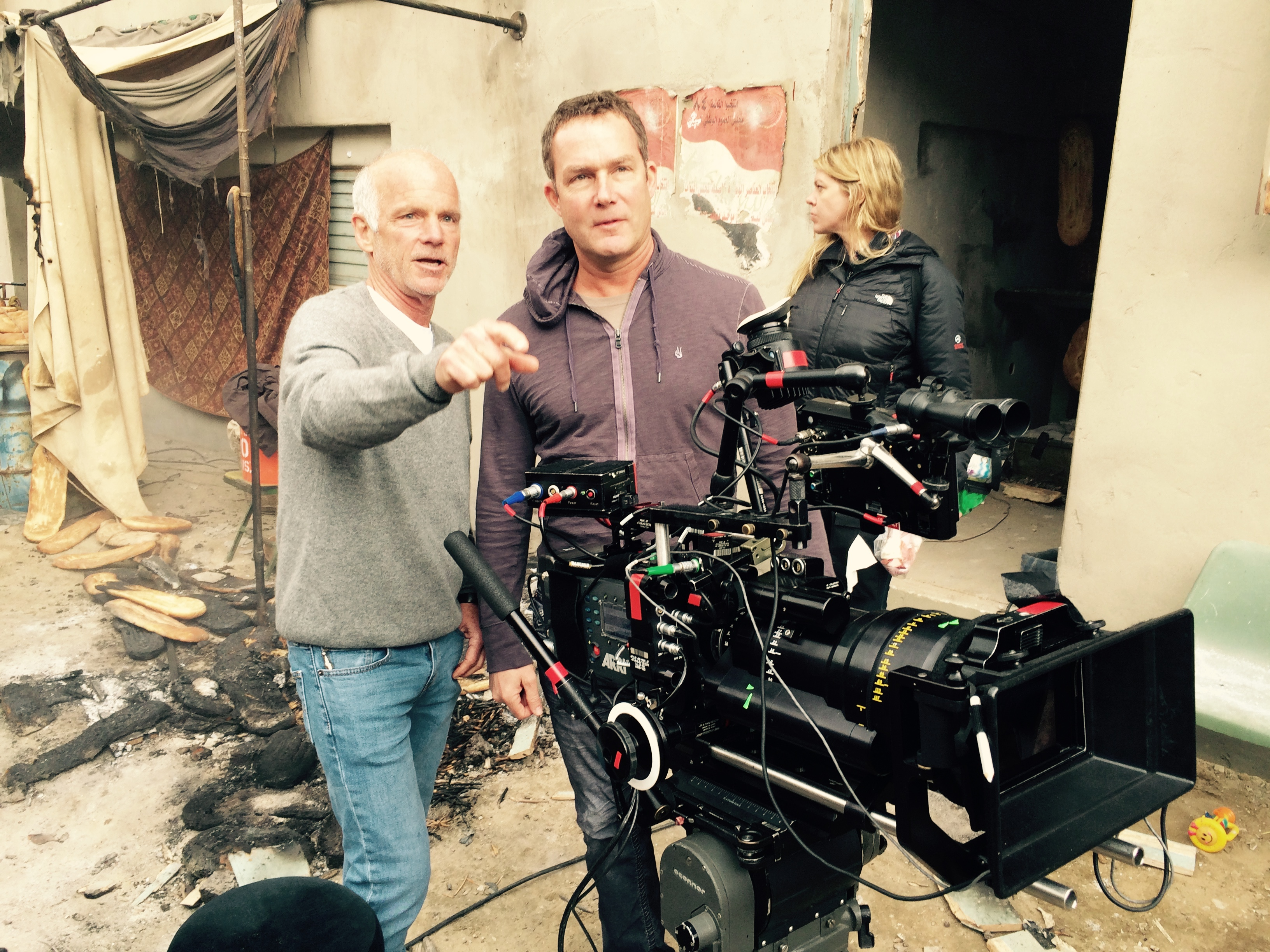 David Segel (right) on set of Man Down (2015) with producer, Steve McEveety